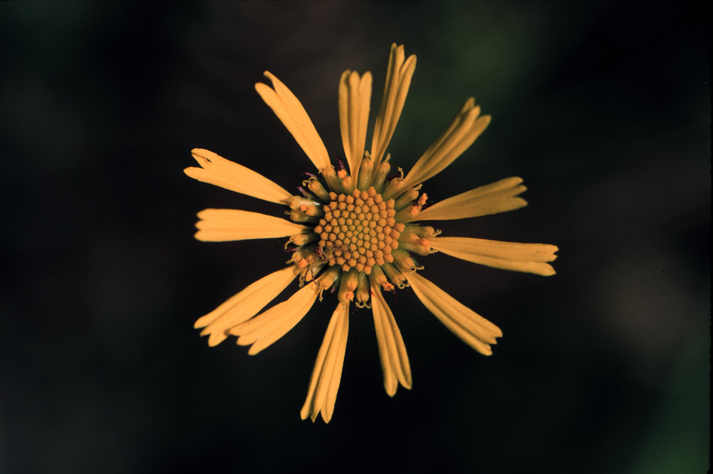 This is a photo of the flower of Balduina uniflora against a dark background. This photo was taken by Larry Allain for the United State Geological Survey